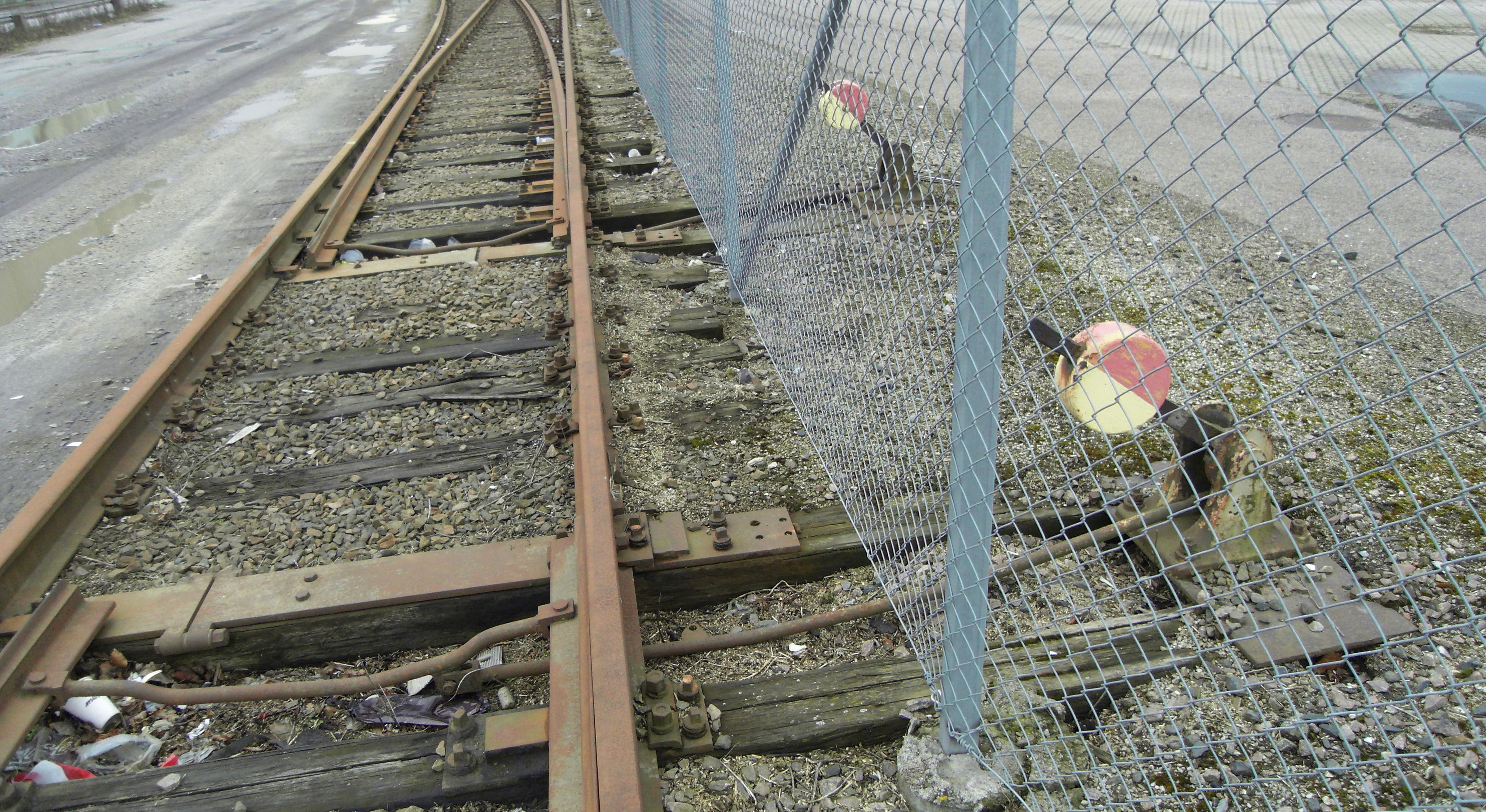 Two old railroad switch levers in the neighbourhood Frihamnen (literally "freeharbor") in Malmo. The railway and railroad switch levers are no longer in use.